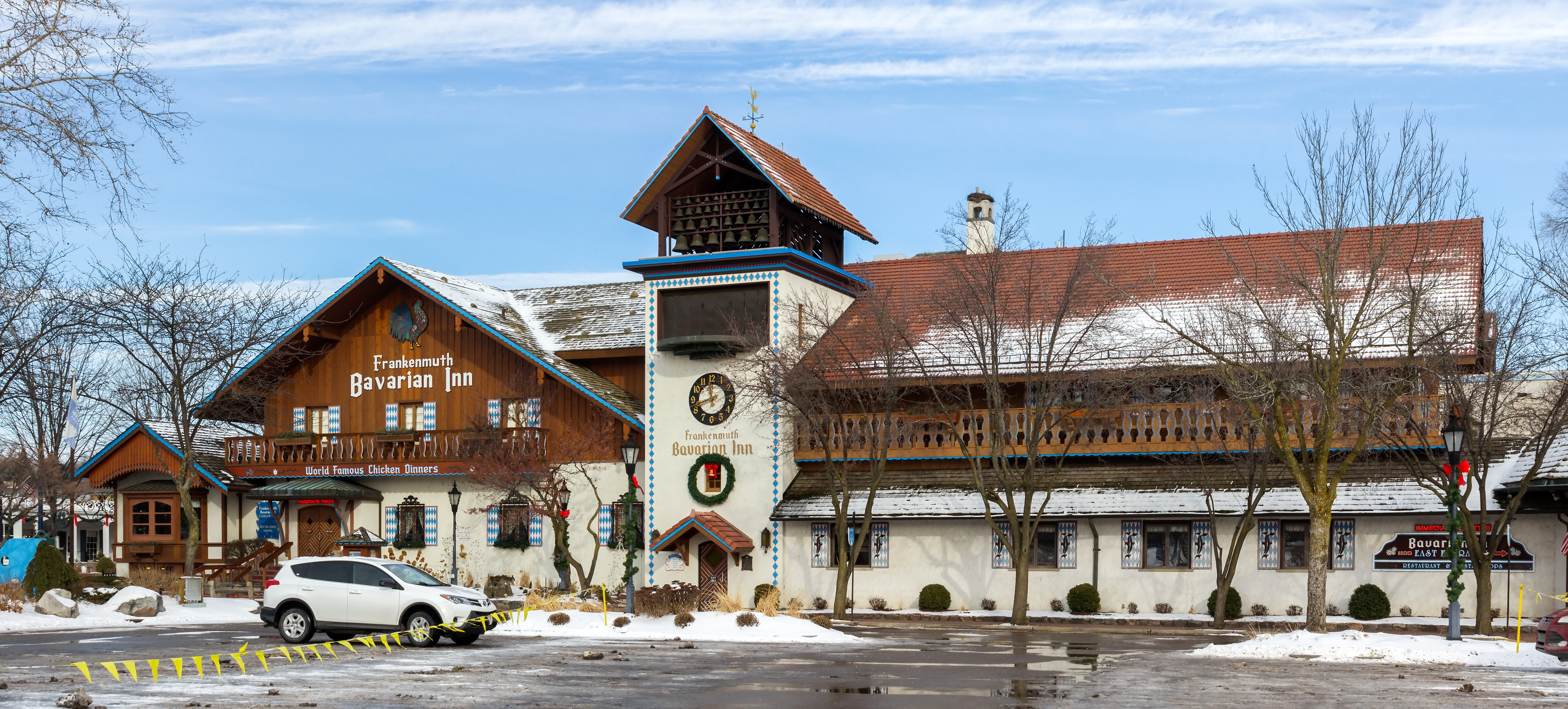 Bavarian Inn Restaurant, Frankenmuth, Michigan, 2014-01-11